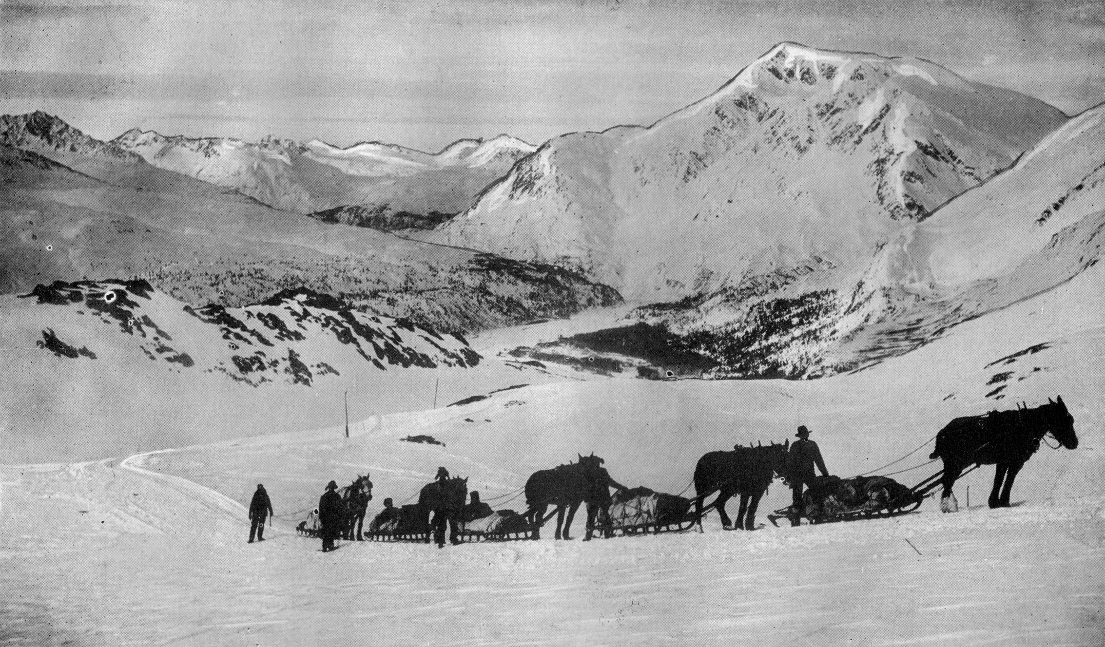 A PARTY IN THOMPSON'S PASS, VALDEZ TRAIL, ALASKA.